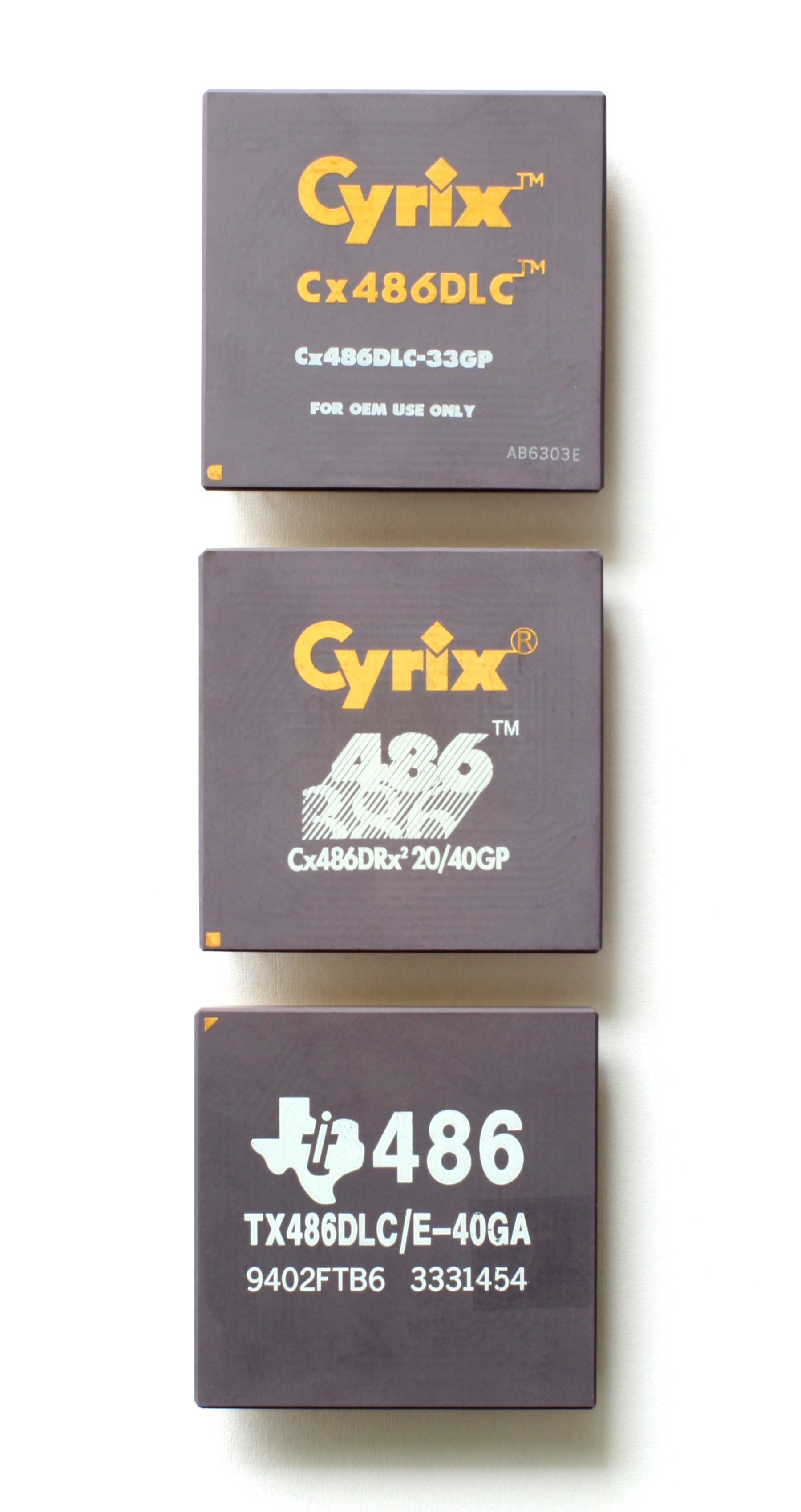 Upgrades for 386 mainboards.